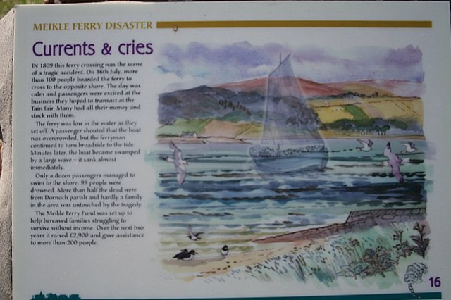 The tragedy of 1809 and the lack of a Plimsoll line.